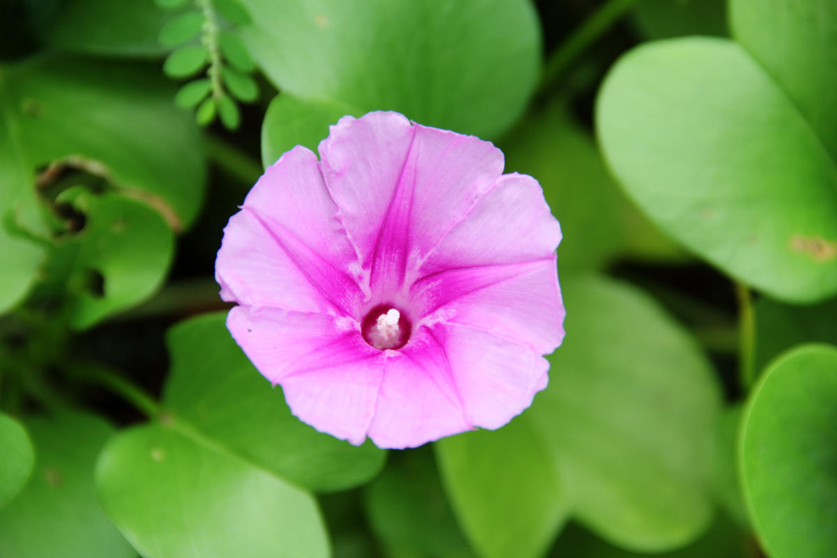 We are perennial herbs with a thick tap root. The stems of us are 5-30 meters long, twining or prostrate, also rooting at the nodes. We are usually found on sandy shores of tropical Atlantic, Pacific and Indian Oceans.